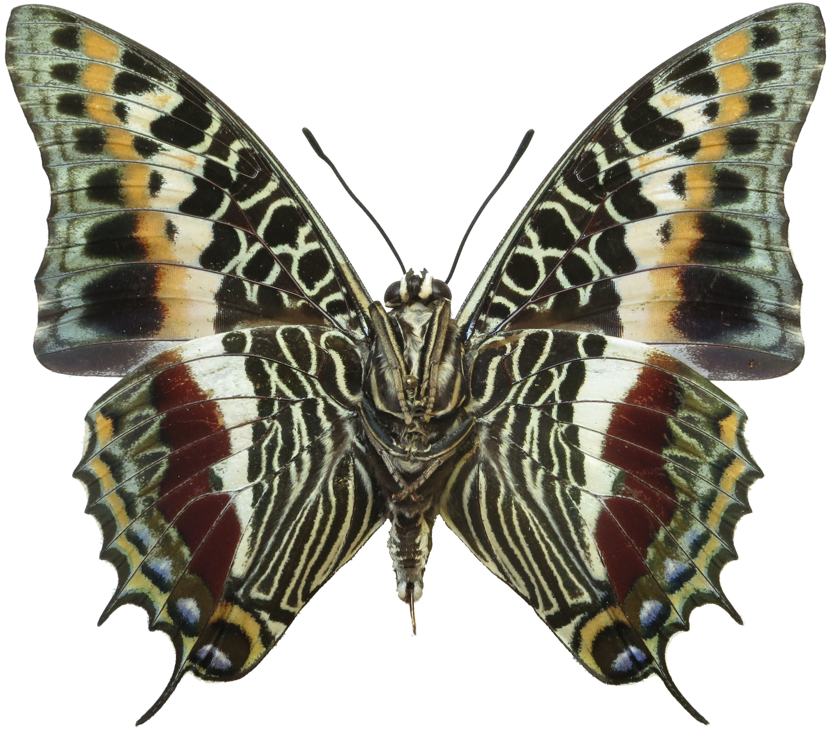 Charaxes castor male from Maka, CAR - Ventral view